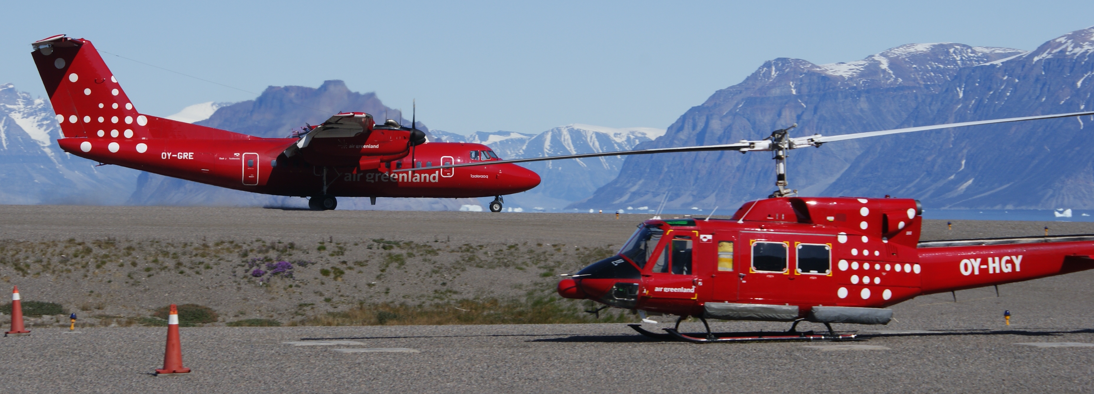 Air Greenland's Bell 212 and de Havilland Canada Dash-7 which just landed at Qaarsut Airport, Greenland.